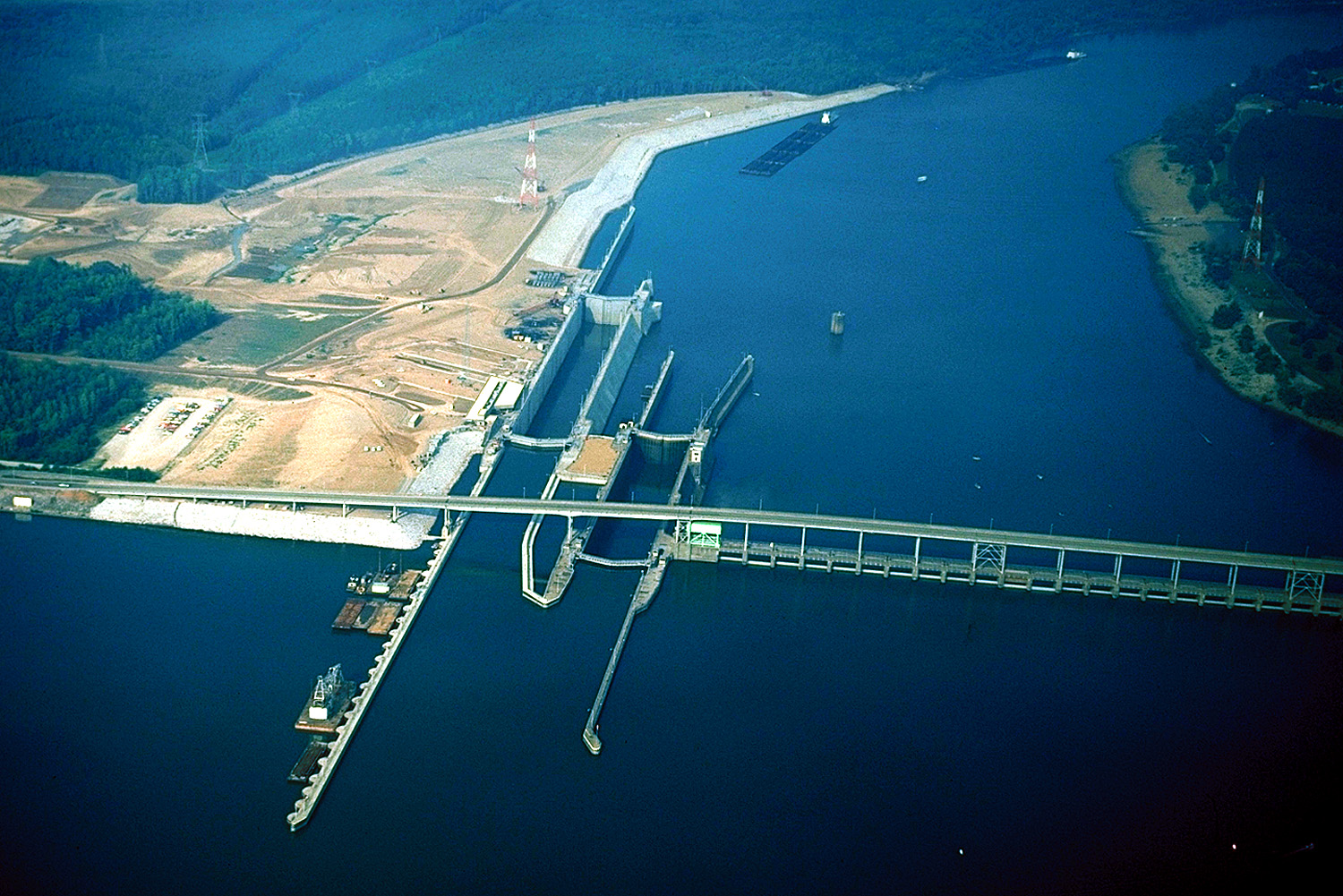 Pickwick Landing Lock and Dam on the Tennessee River near Counce, Tennessee, USA. The dam impounds Pickwick Lake on the river. The north end of the Tennessee-Tombigbee Waterway is a few miles up the river from this dam. The view is downriver to the southwest.